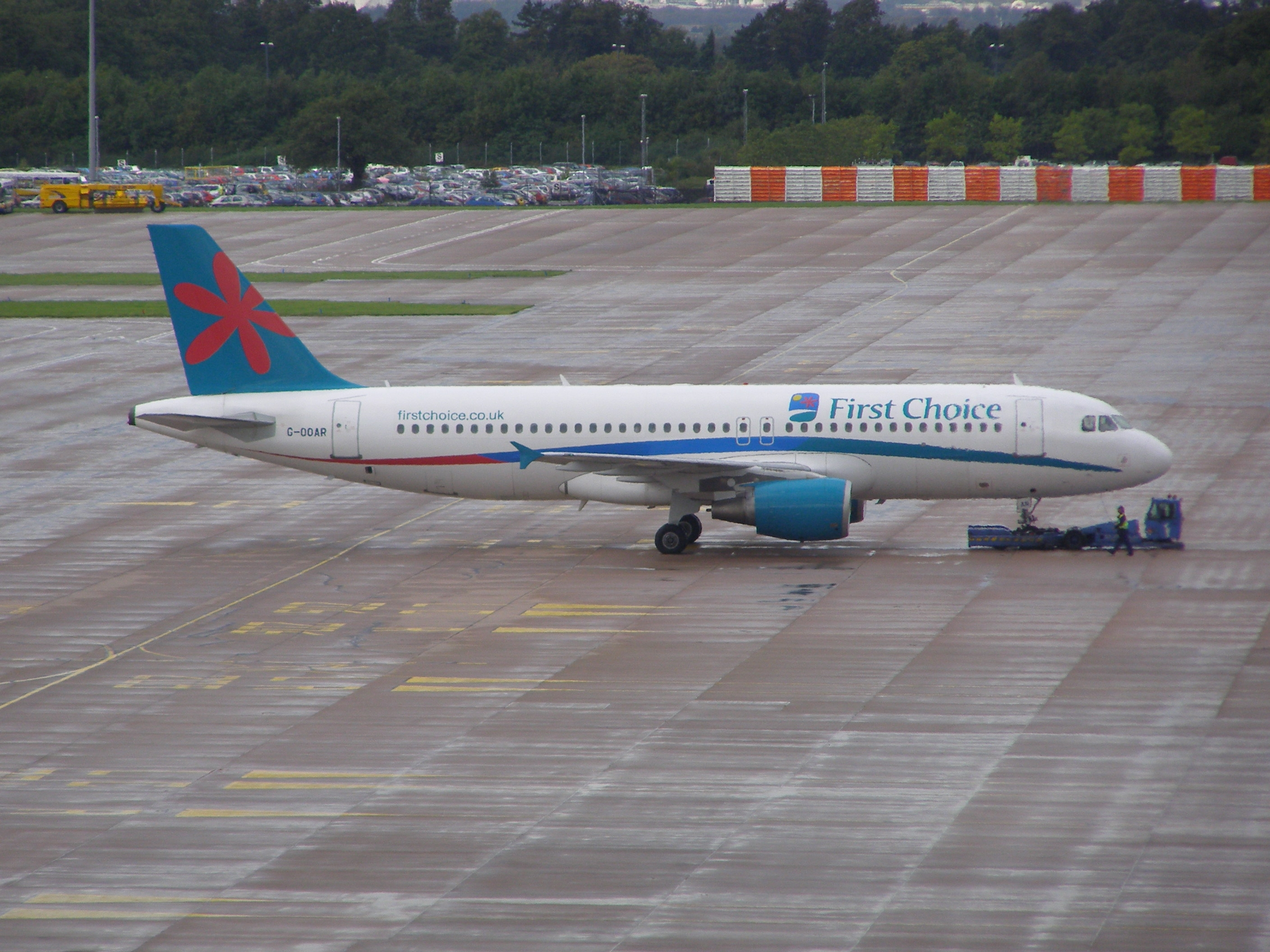 Airbus A320 G-OOAR of First Choice Airways at Manchester Airport, England